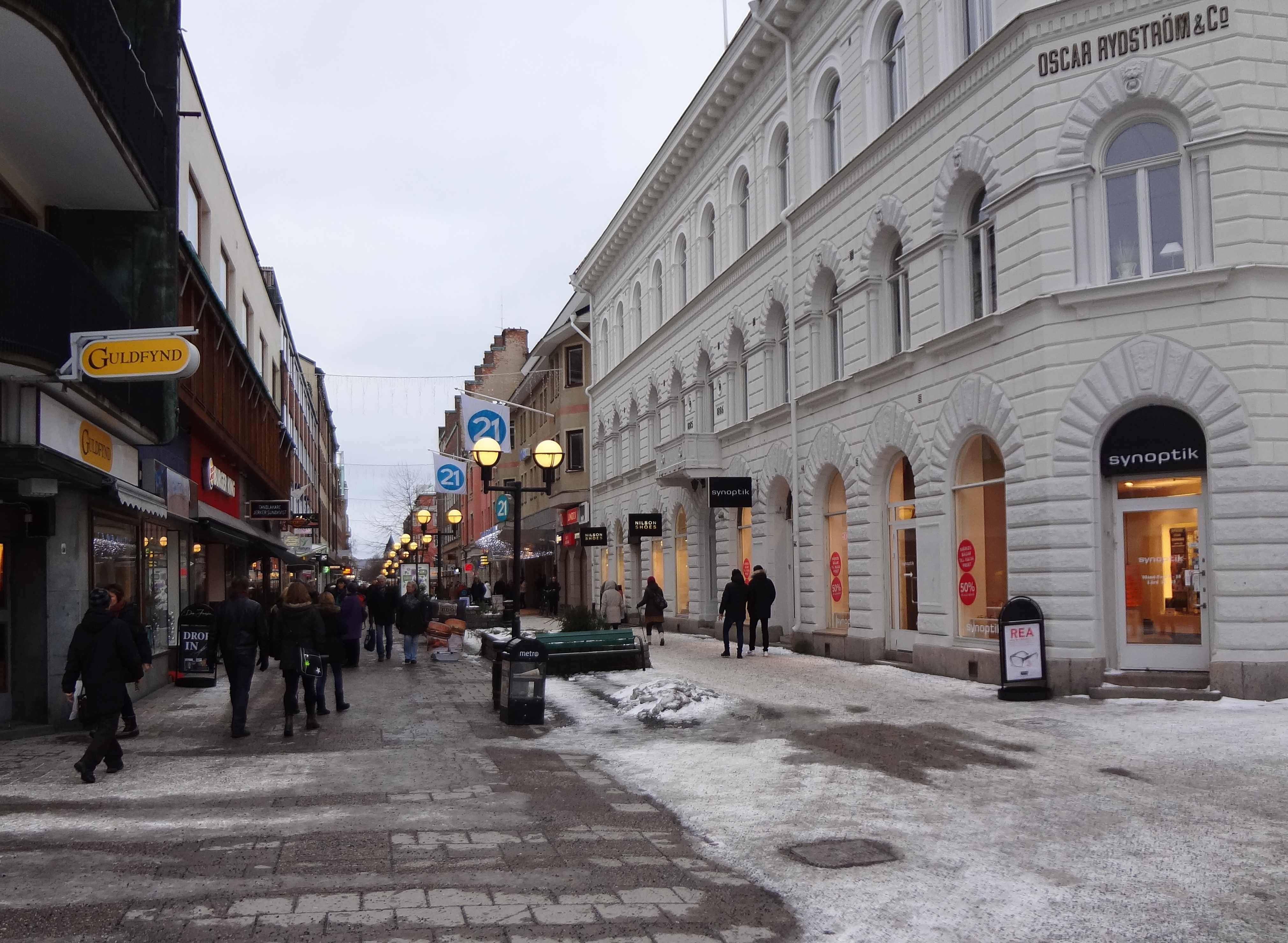 Looking east at street "Kungsgatan" in Eskilstuna, Sweden